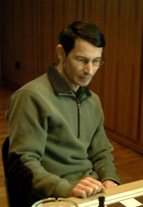 Alexander Graf, chess grandmaster